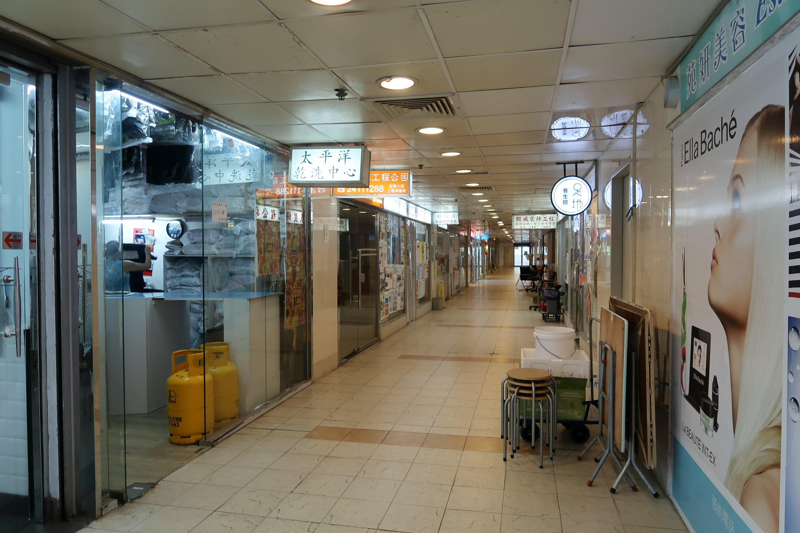 Allway Gardens Shopping Arcade